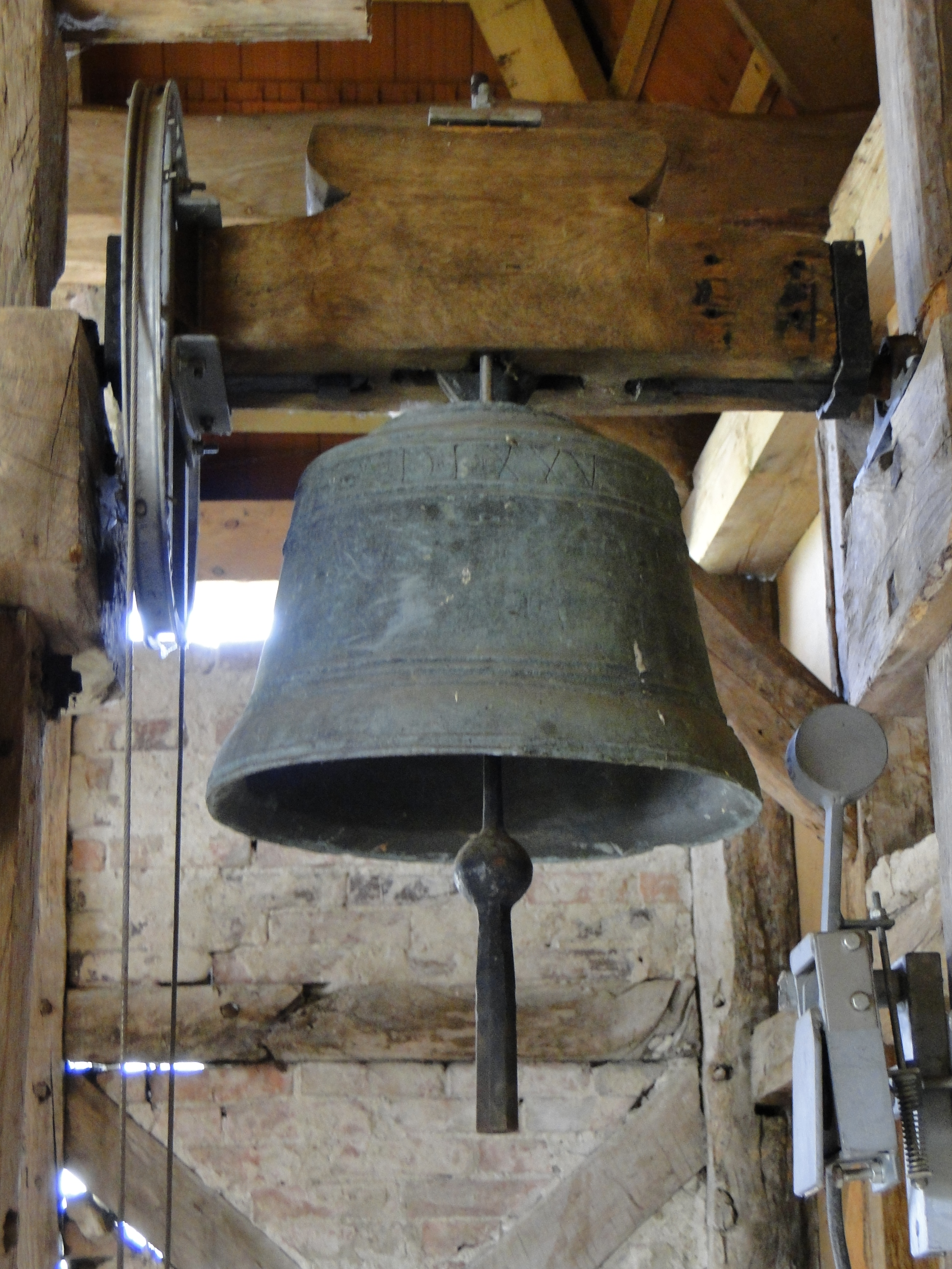 Church in Müsselmow, district Ludwigslust-Parchim, Mecklenburg-Vorpommern, Germany